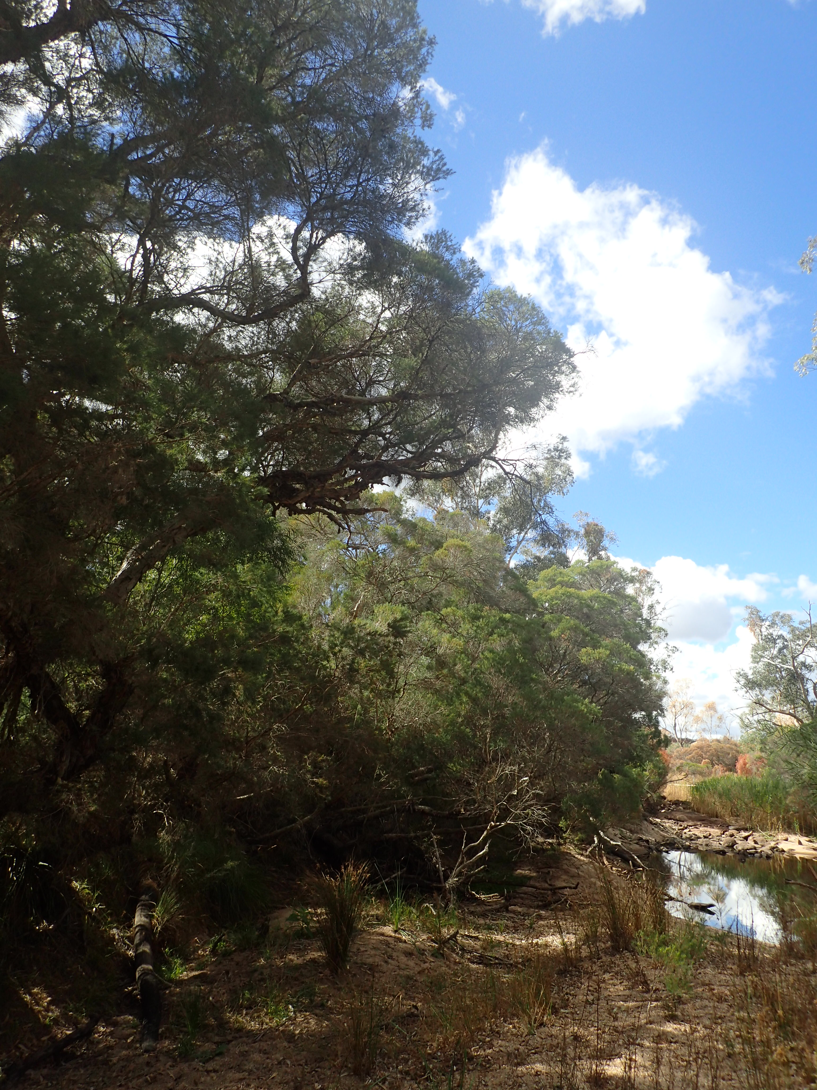 Habit of Melaleuca trichostachya in the Severn River, Ballendean, Queensland